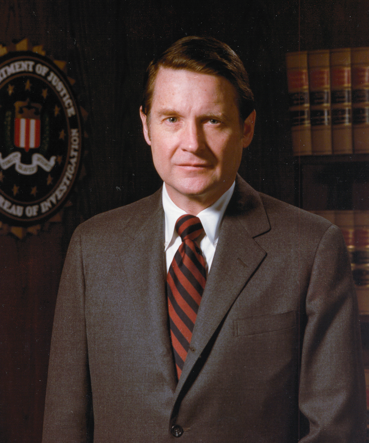 William H. Webster, former director of FBI